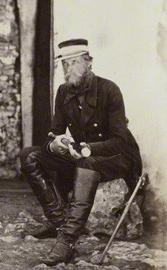 Portrait of Field Marshal Sir Richard James Dacres